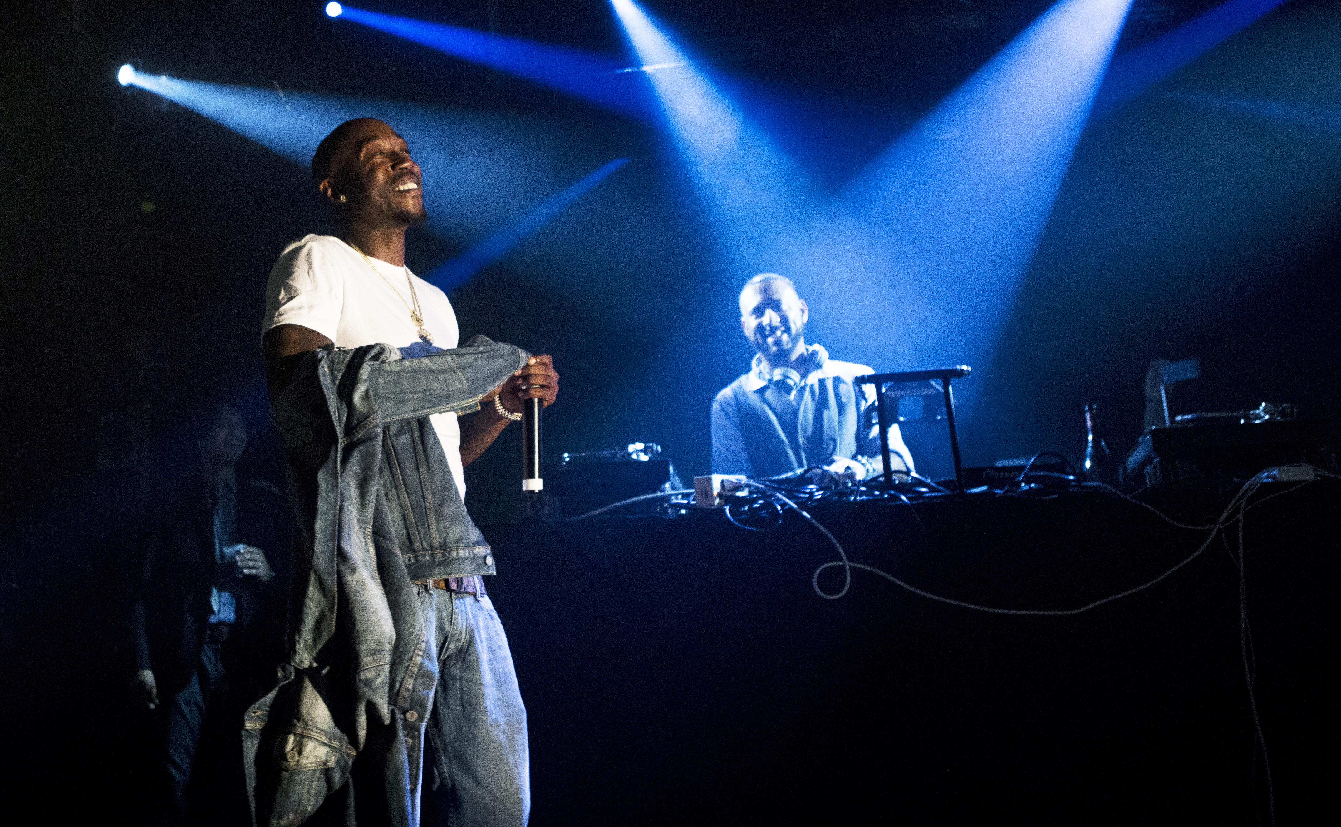 Freddie Gibbs and Madlib performing at The Echoplex in March 2014.